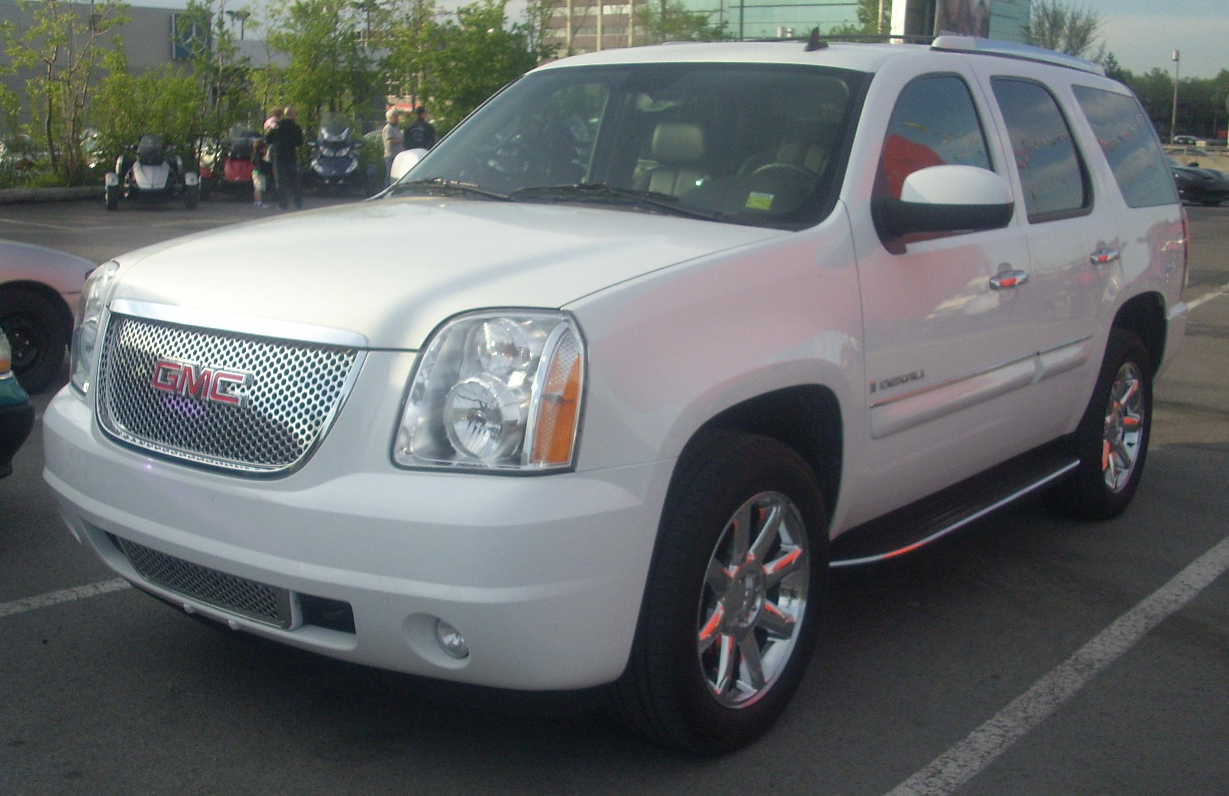 2007-2010 GMC Yukon Denali photographed in Montreal, Quebec, Canada at Gibeau Orange Julep.